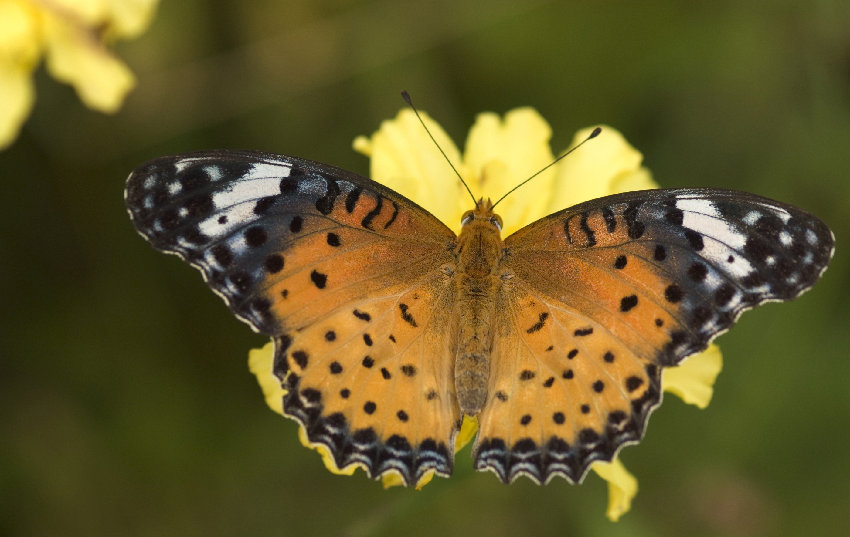 Indian Fritillary